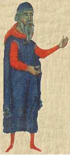 Peire d'Alvernhe from a manuscript in the Bibliothèque Nationale de France.